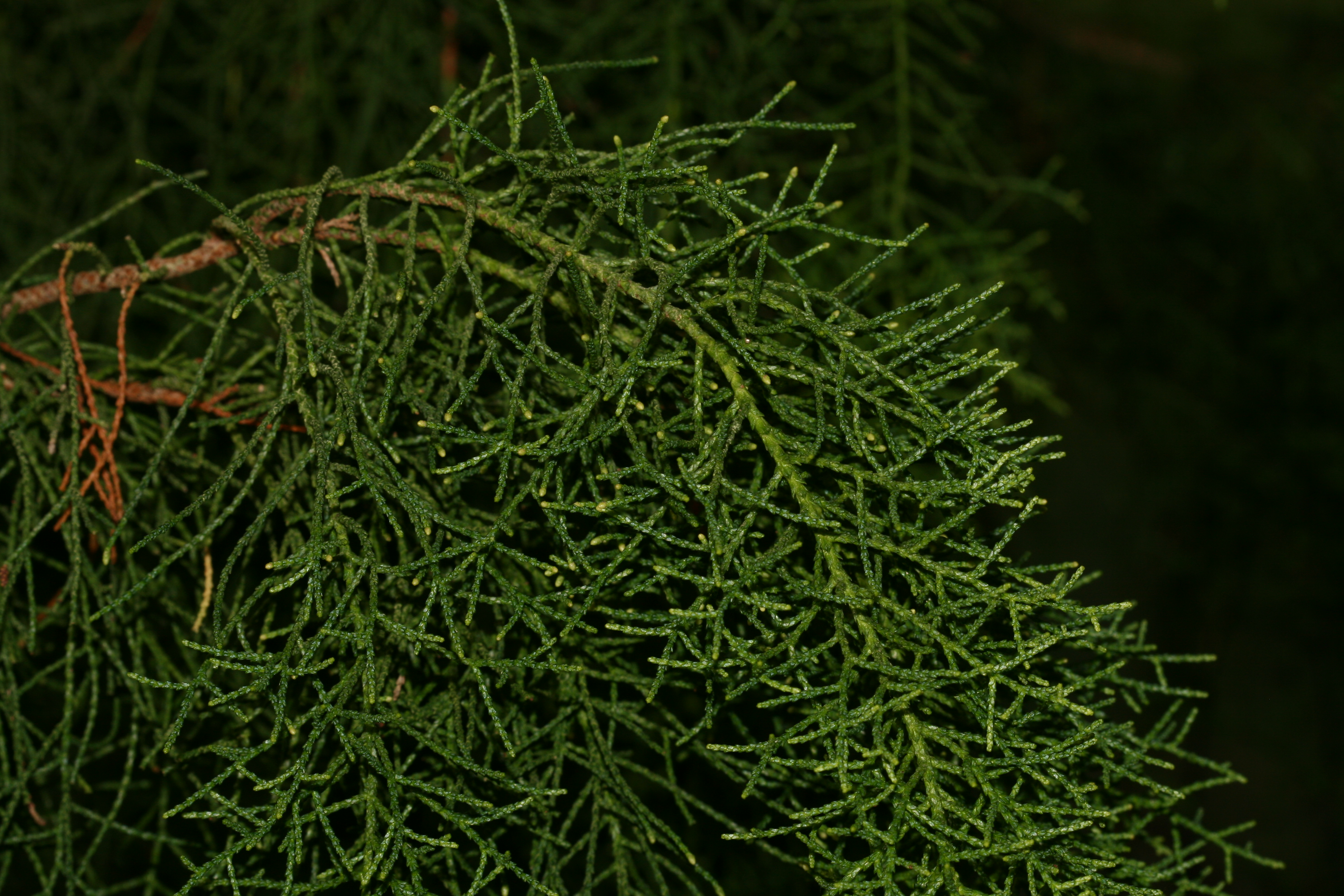 Conifer native to Tasmania. Royal Botanic Gardens, Edinburgh, Scotland